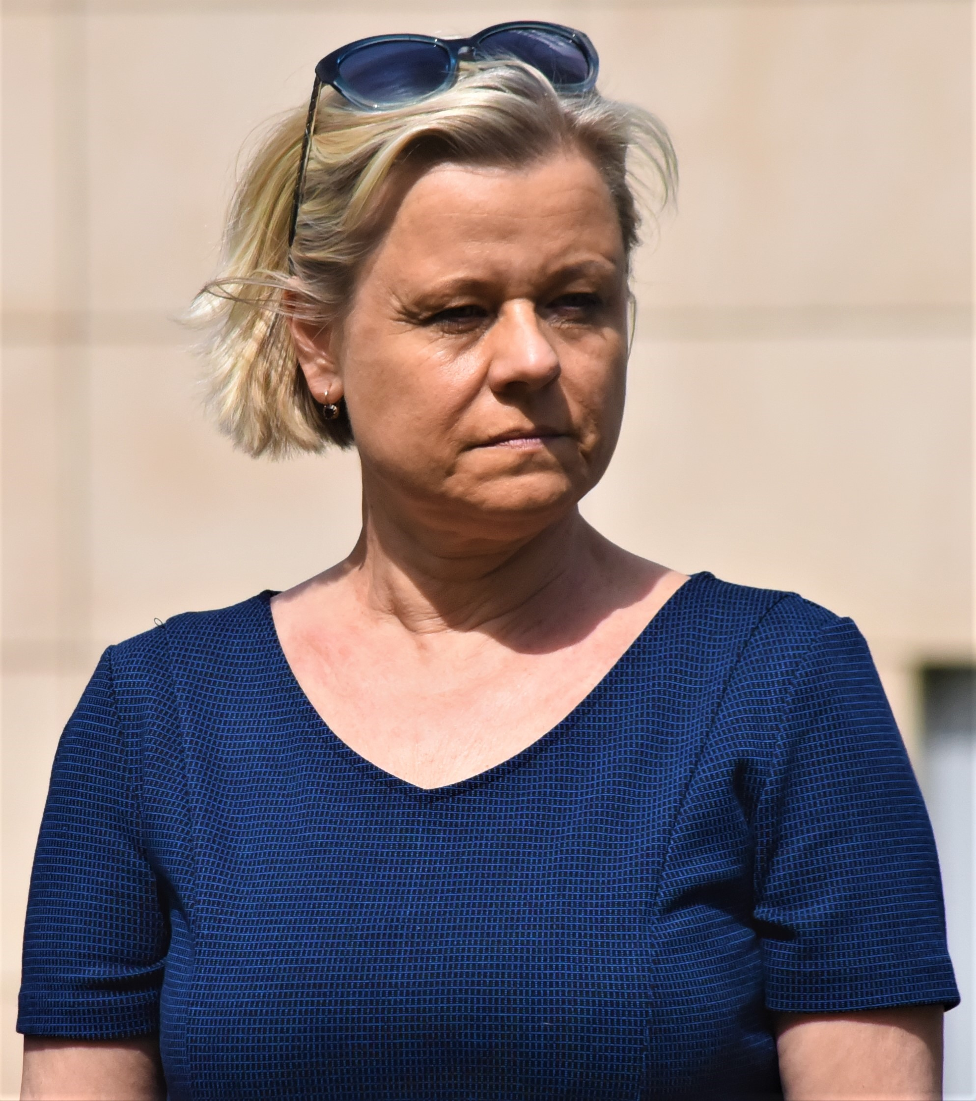 Veronika Vrecionová, Czech politician